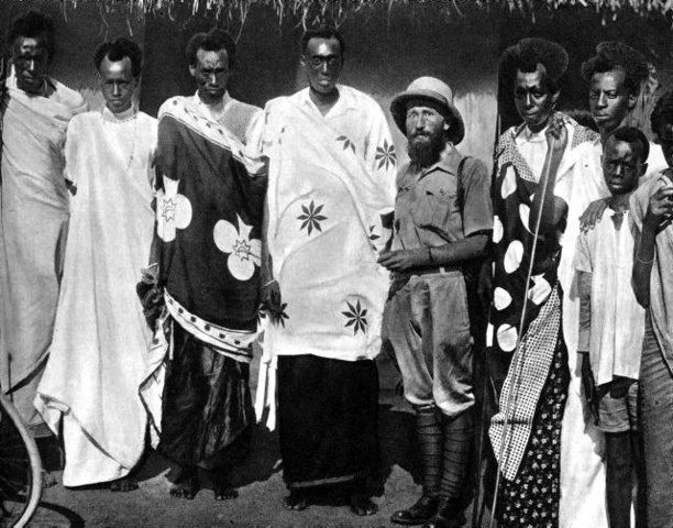 Kazimierz Nowak among the tribal elders (the king in the centre). The photo probably taken by Kazimierz Nowak (1897-1937, the author is on the photo; taken probably by a self-timer) during his trip through Africa - a Polish traveller, correspondent and photographer. Probably the first man in the world who crossed Africa alone from the North to the South and from the South to the North (from 1931 to 1936; on foot, by bicycle and canoe).